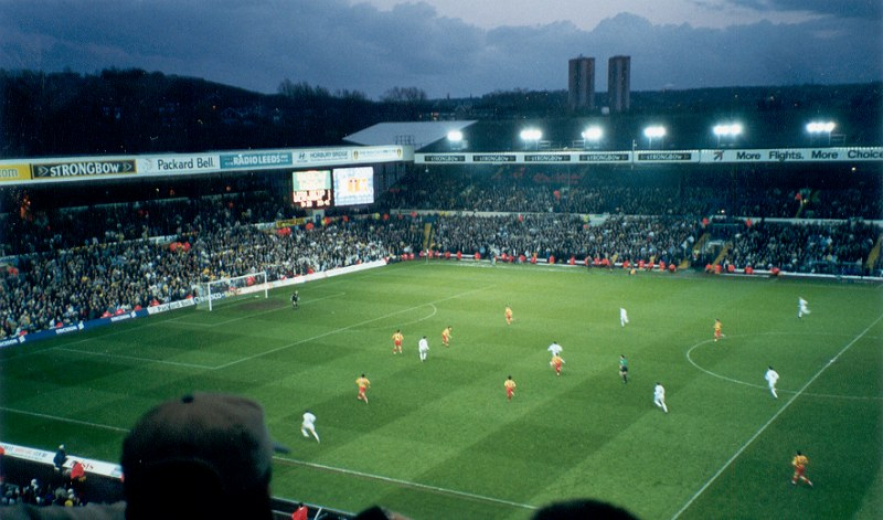 Click for match details. A Battle of Nerves. Photo from the critical second leg match between Galatasaray and Leeds United in 2000 UEFA Cup. After the first leg, two Leeds fan died in a fight between the two teams hooligans.